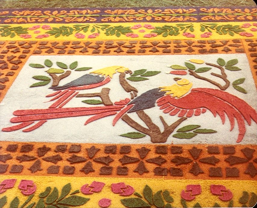 Antigua Guatemala Holy Week 1980 Temporary street carpet of colored sawdust for religious procession. Infrogmation photo.